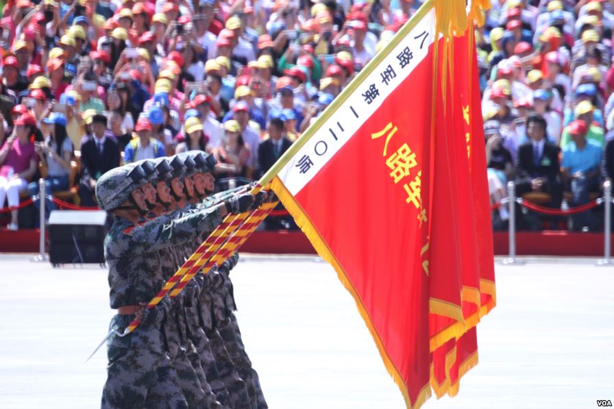 The Hero Squads at the 2015 China Victory Day parade.